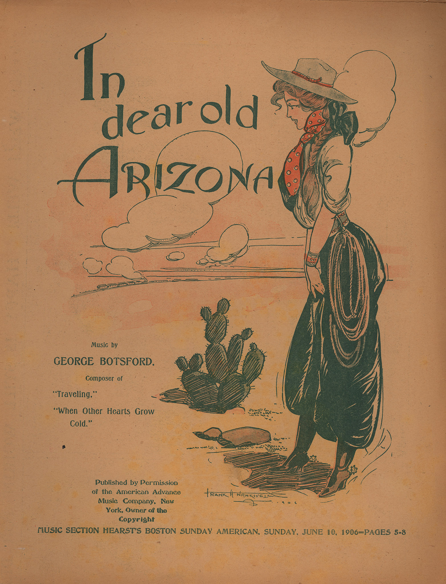 Sheet music cover to "In Dear Old Arizona" by George Botsford.